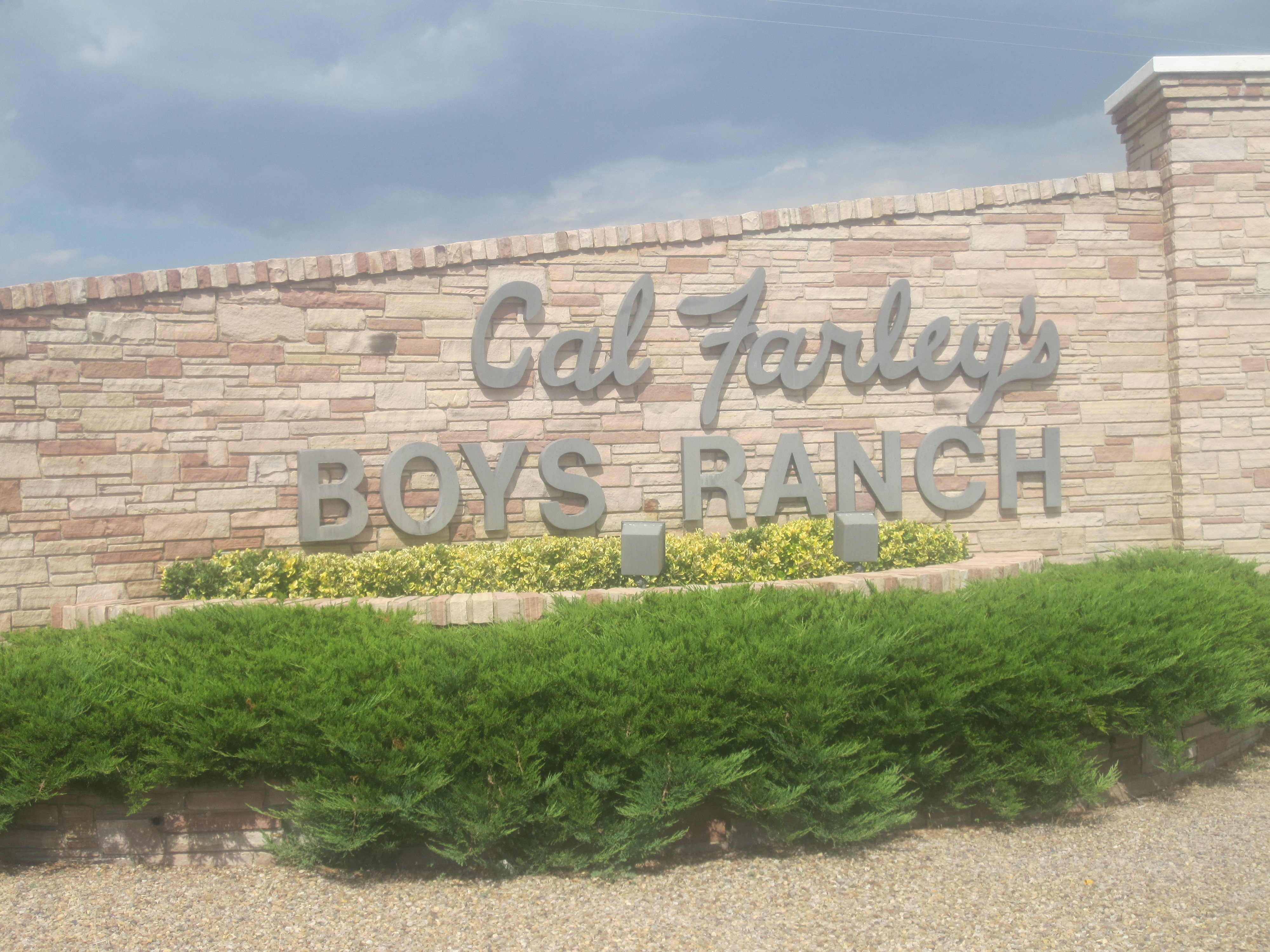 I took photo with Canon Camera off U.S. Highway 85 in NW TX.